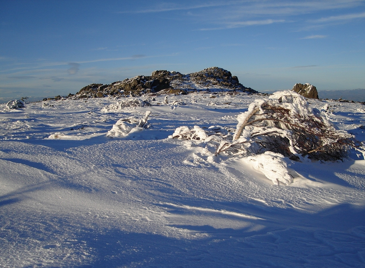 Kamen Del Peak from the col linking it to Ushite Peak, Vitosha Mountain, Bulgaria. Photograph by Nikolay Rainov published in under Creative Commons license 2.5.